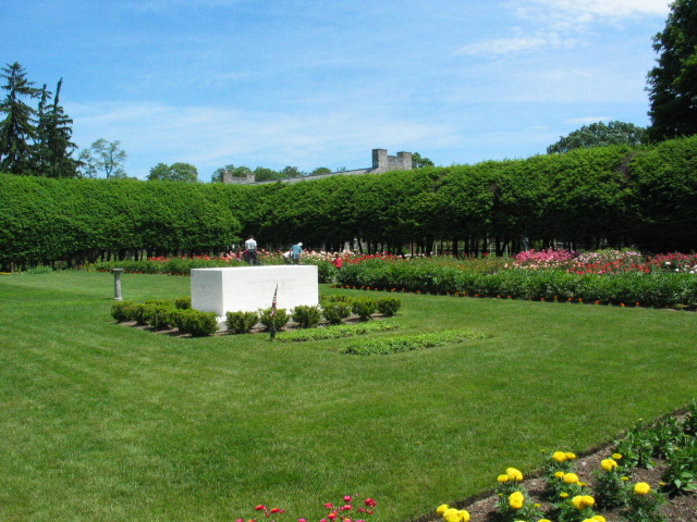 The grave marker of Franklin Delano Roosevelt and Anna Eleanor Roosevelt. The solid block marble's top matches the dimensions of FDR's desk in the Oval Office of the White House. FDR's grave is in front of the tomb (metal stanchion with American flag), with his wife's lying alongside. FDR's pet dogs (Fala - Scottish Terrier, Chief - German Shepherd), have graves on the other side of the marble headstone (single pillar).